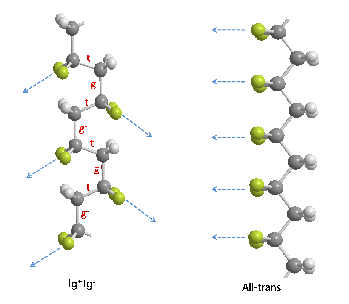 Ferroelectric-wiki-w3